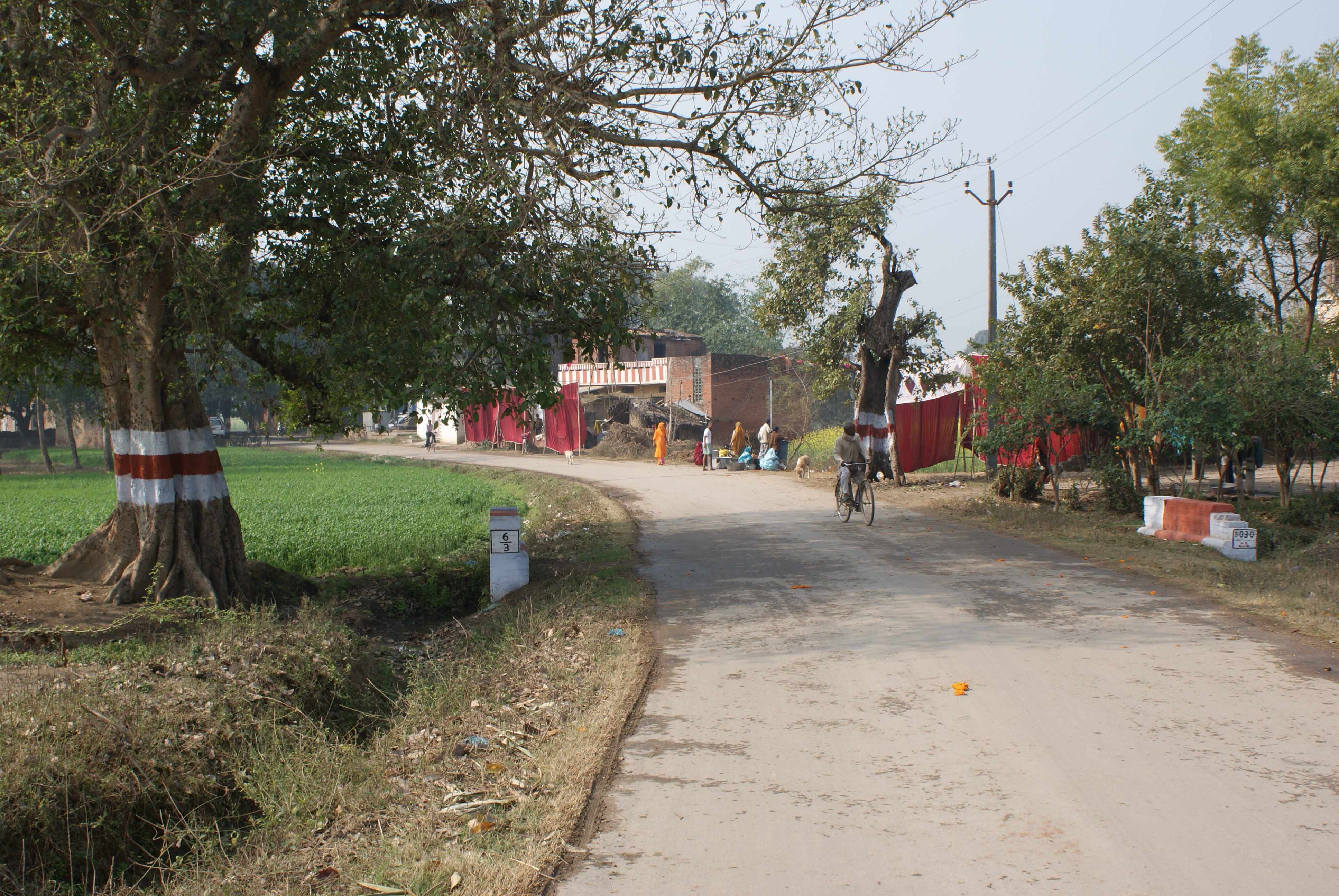 Along the route of the Panchakroshi pilgrimage track, near Varanasi, India